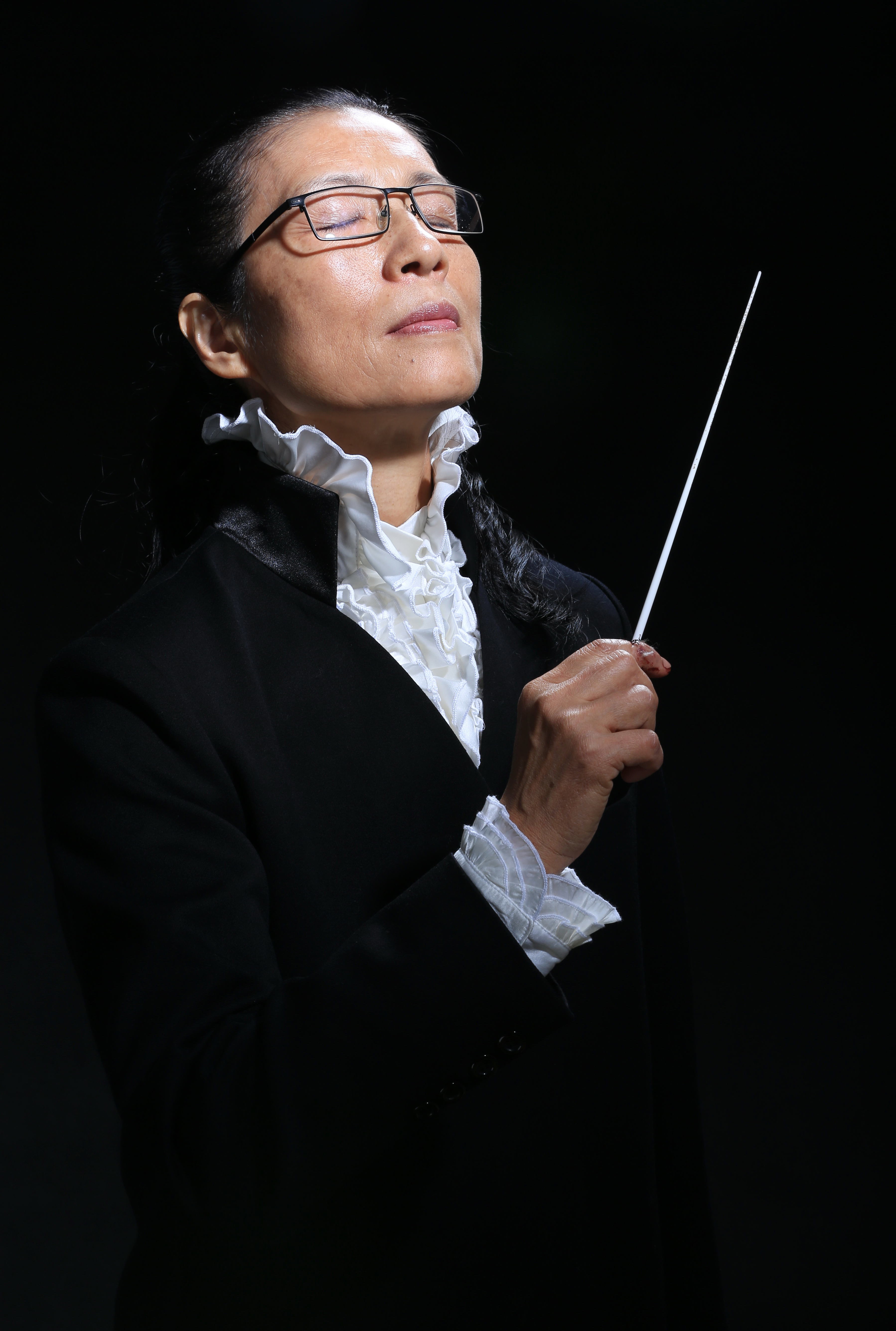 Conductor Pei-Yu Chang (chin. 张培豫)